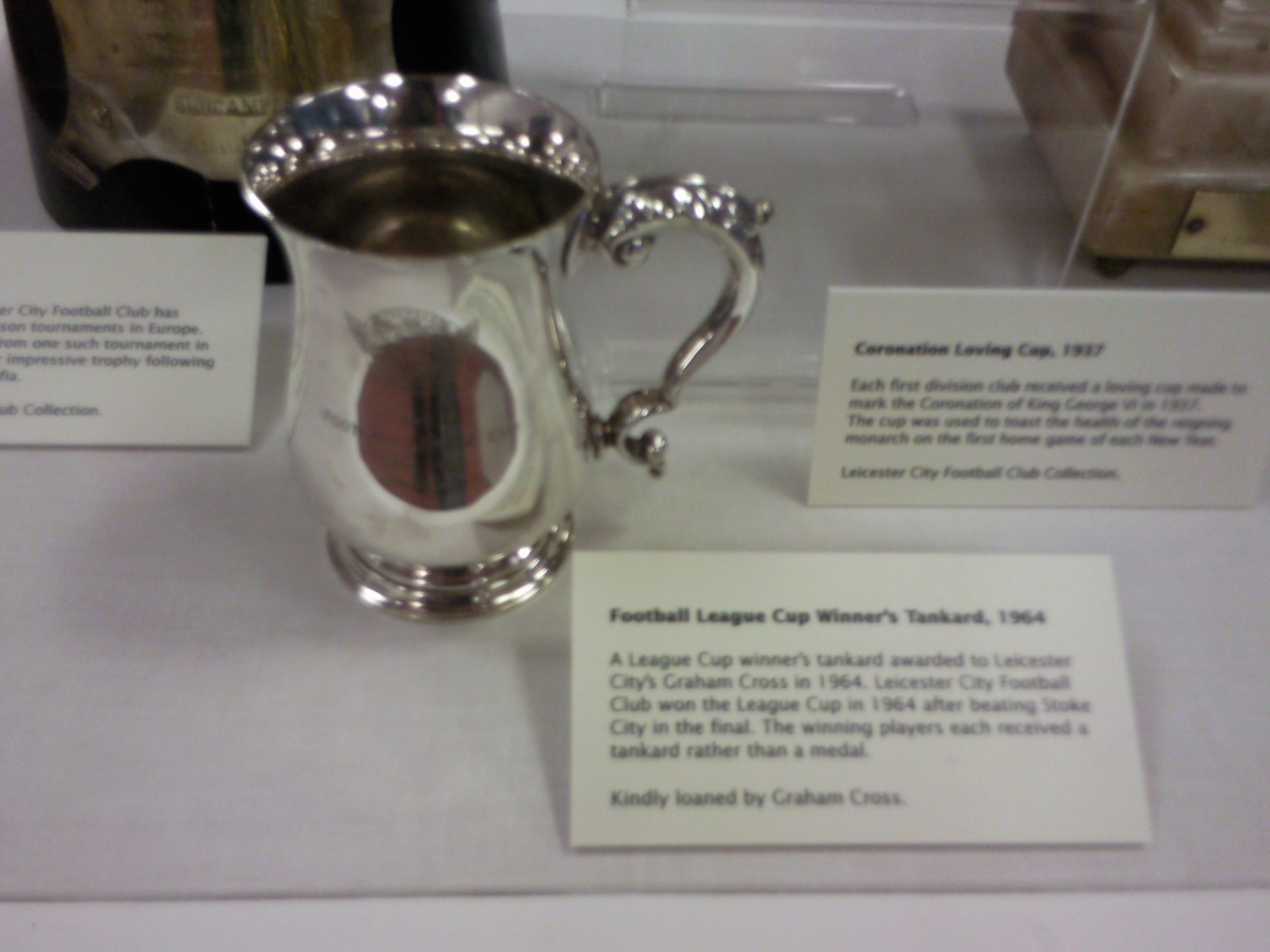 A Football League Cup winner's tankard on display at an exhibition in Coalville in January 2010. Image taken by myself.